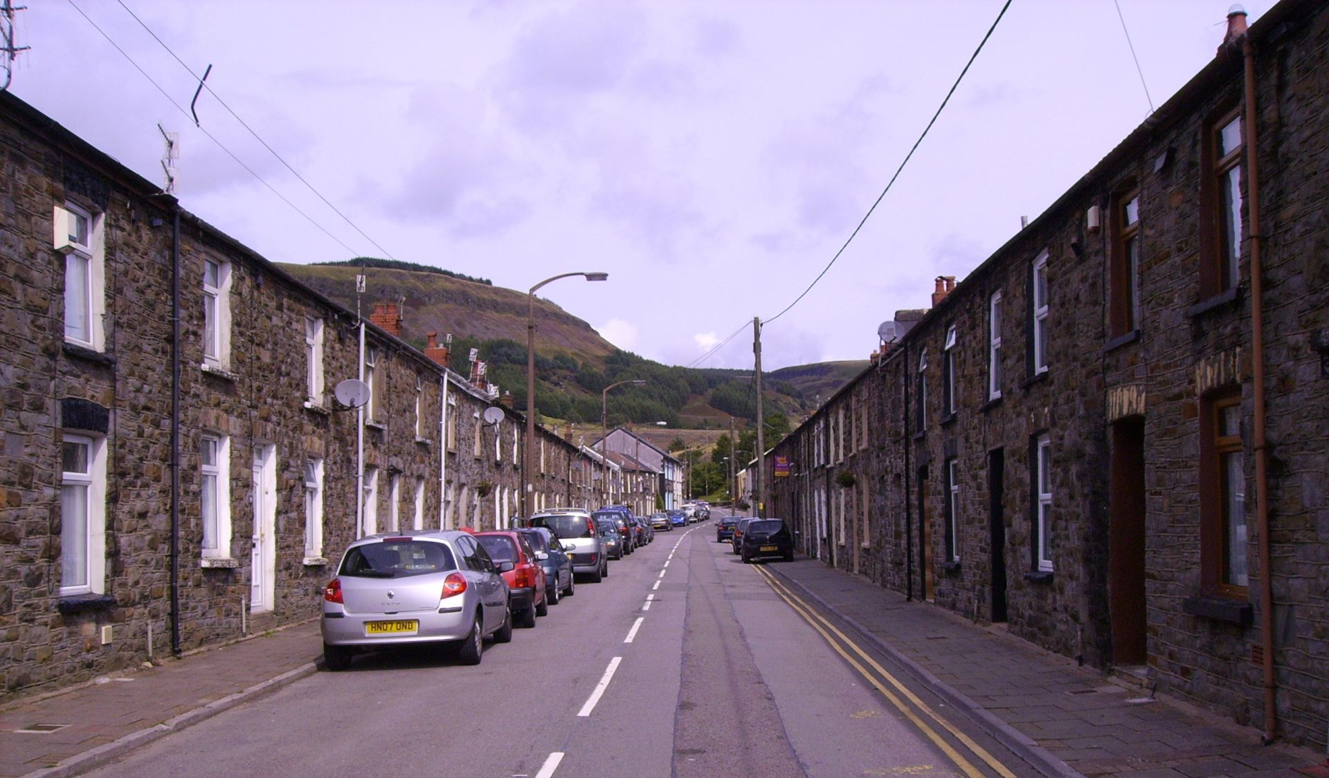 Blaenrhonddda Rhondda Wales